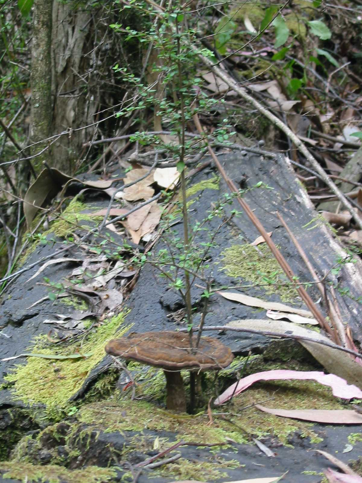 I took the photo on a recent visit ot the site.